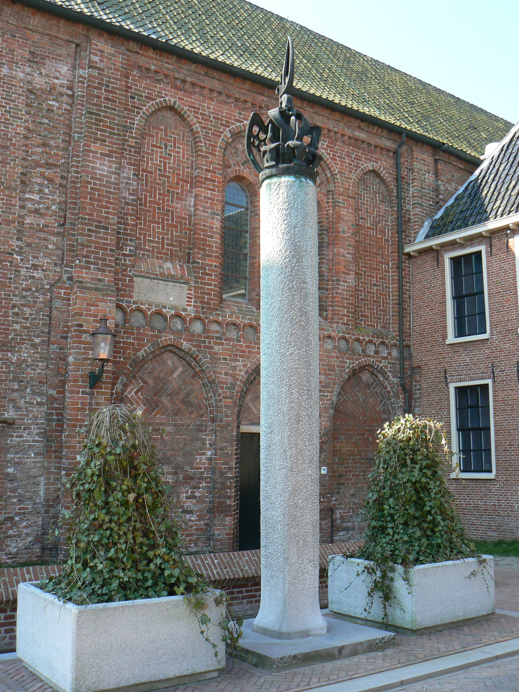 sculpture/memorial 1940-1945 (1954) by Willem Valk in Appingedam/The Netherlands